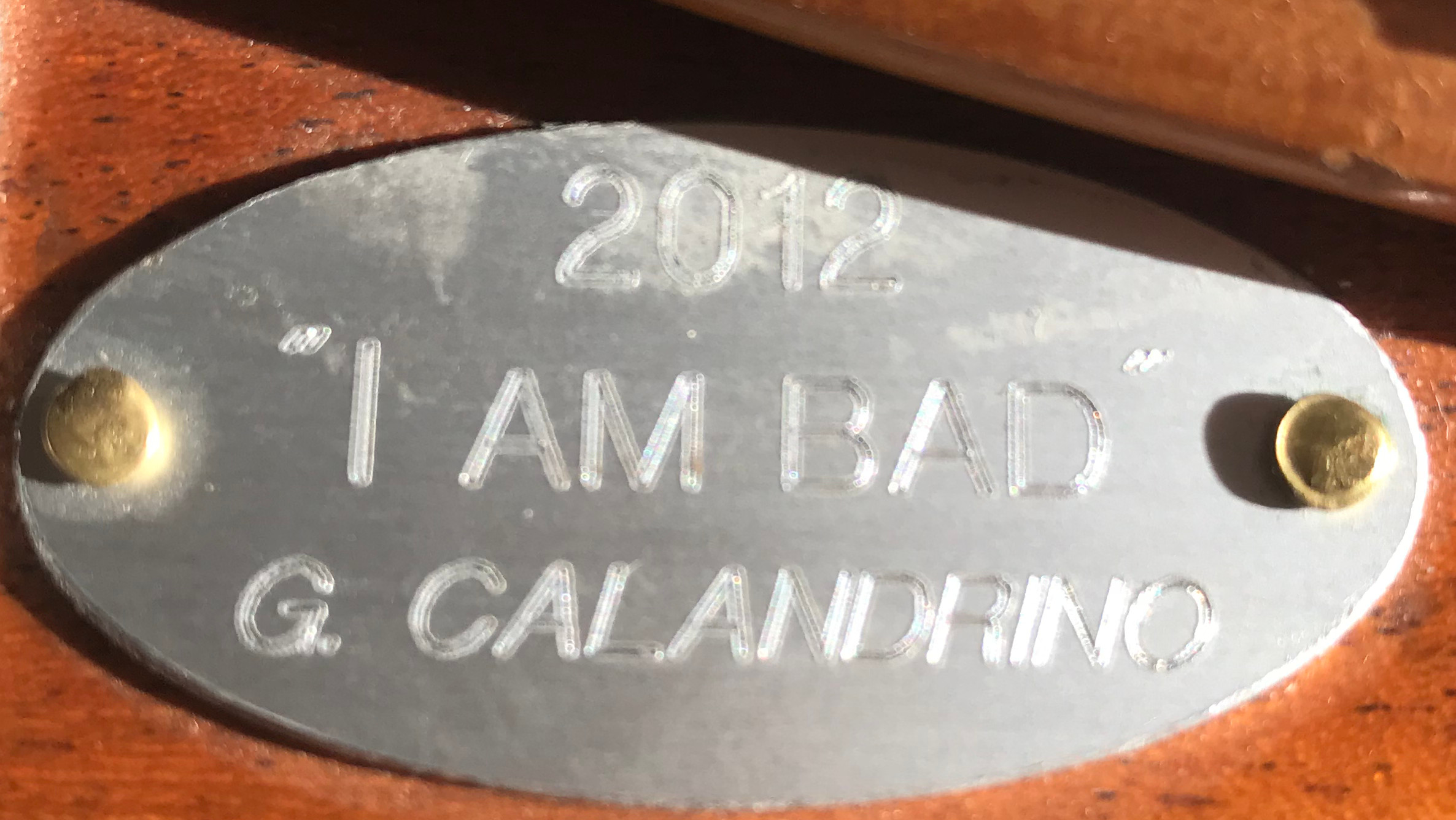 Patch on the trophy